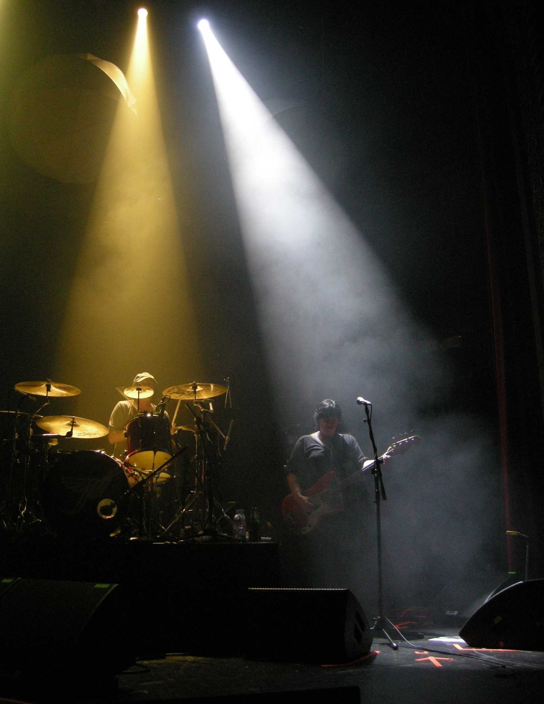 Flickr Tags: Pixies Fuck Buttons Uptown Theater Kansas City Missouri KC MO September 17 2010 09/17/10 Concert Drum n Bass Drums Bass Drummer Bassist David Lovering Kim Deal Spotlight White Orange.